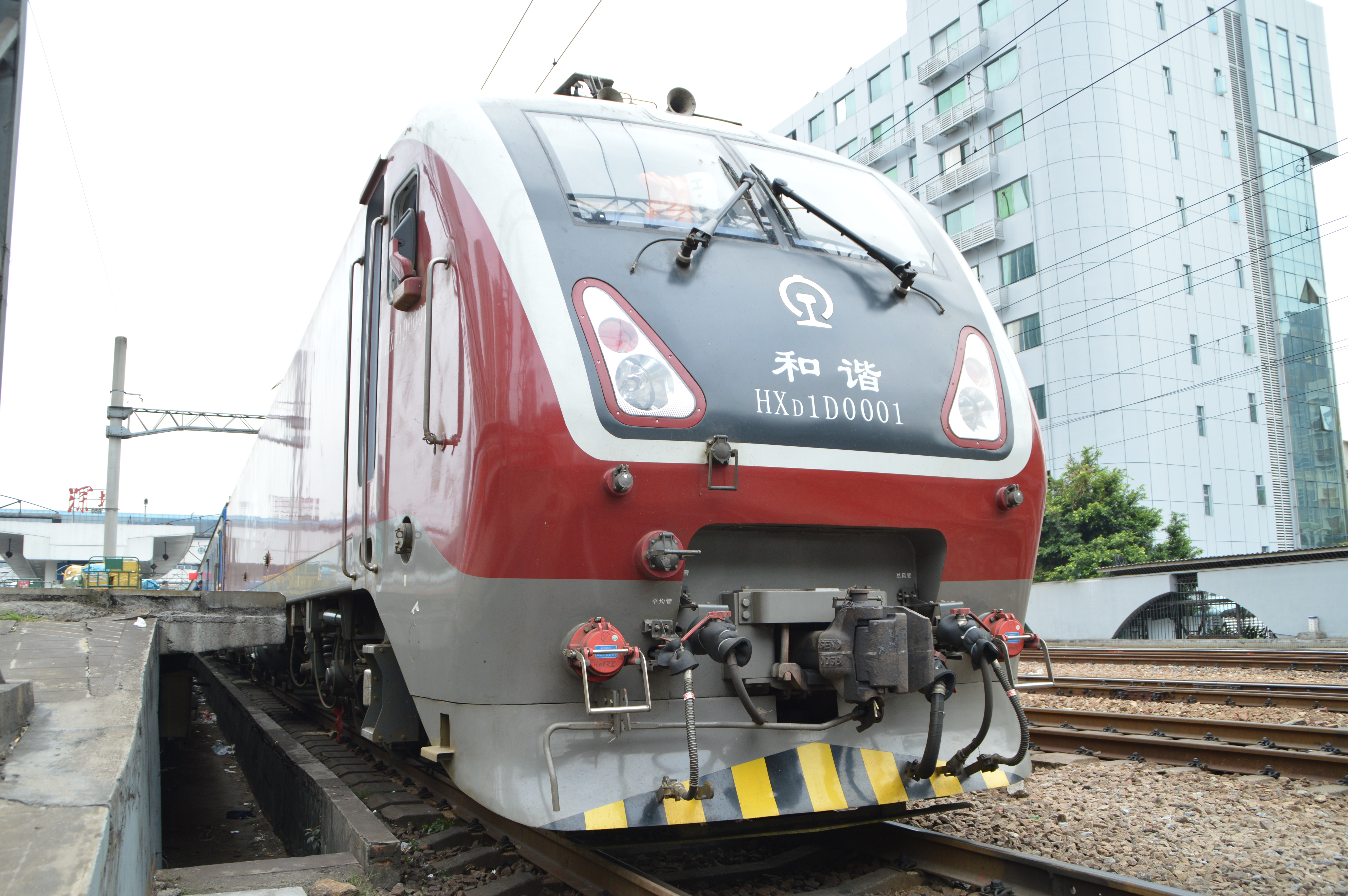 HXD1D 0001 at Shenzhen Station